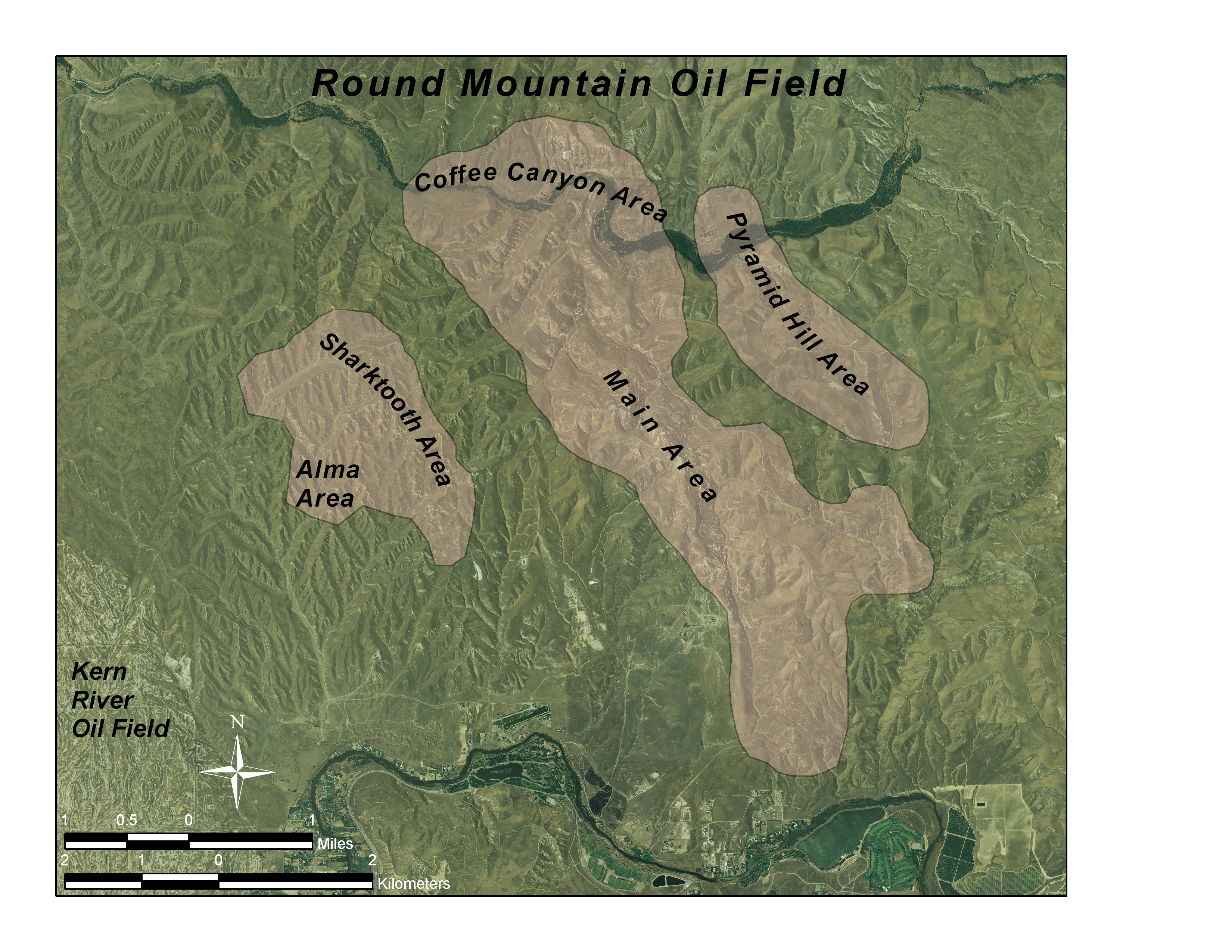 Round Mountain Field aerial, with subareas labeled; by me, in ArcGIS 9.2; all data is in public domain: GFDL